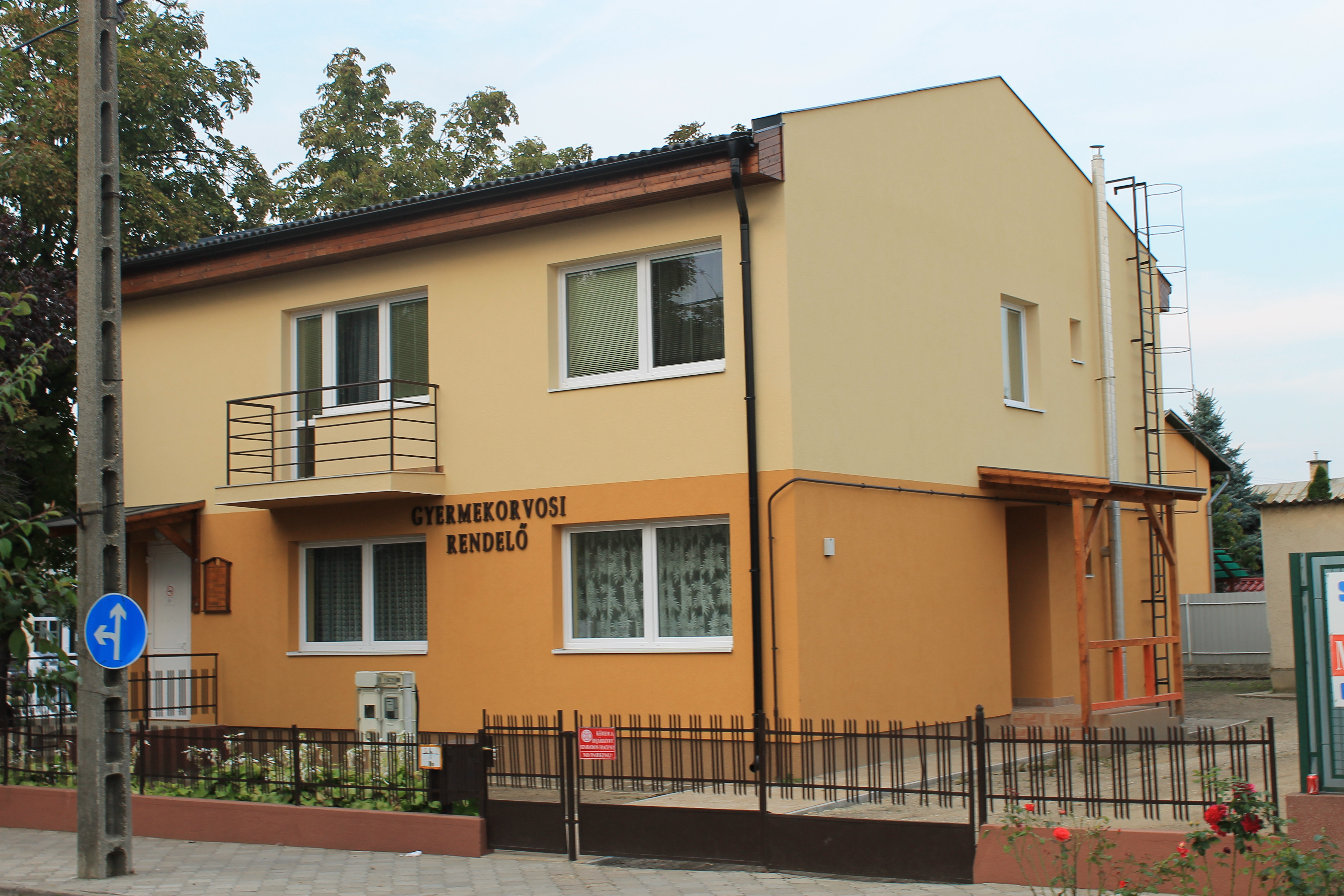 Pediatrics clinic in Balkány